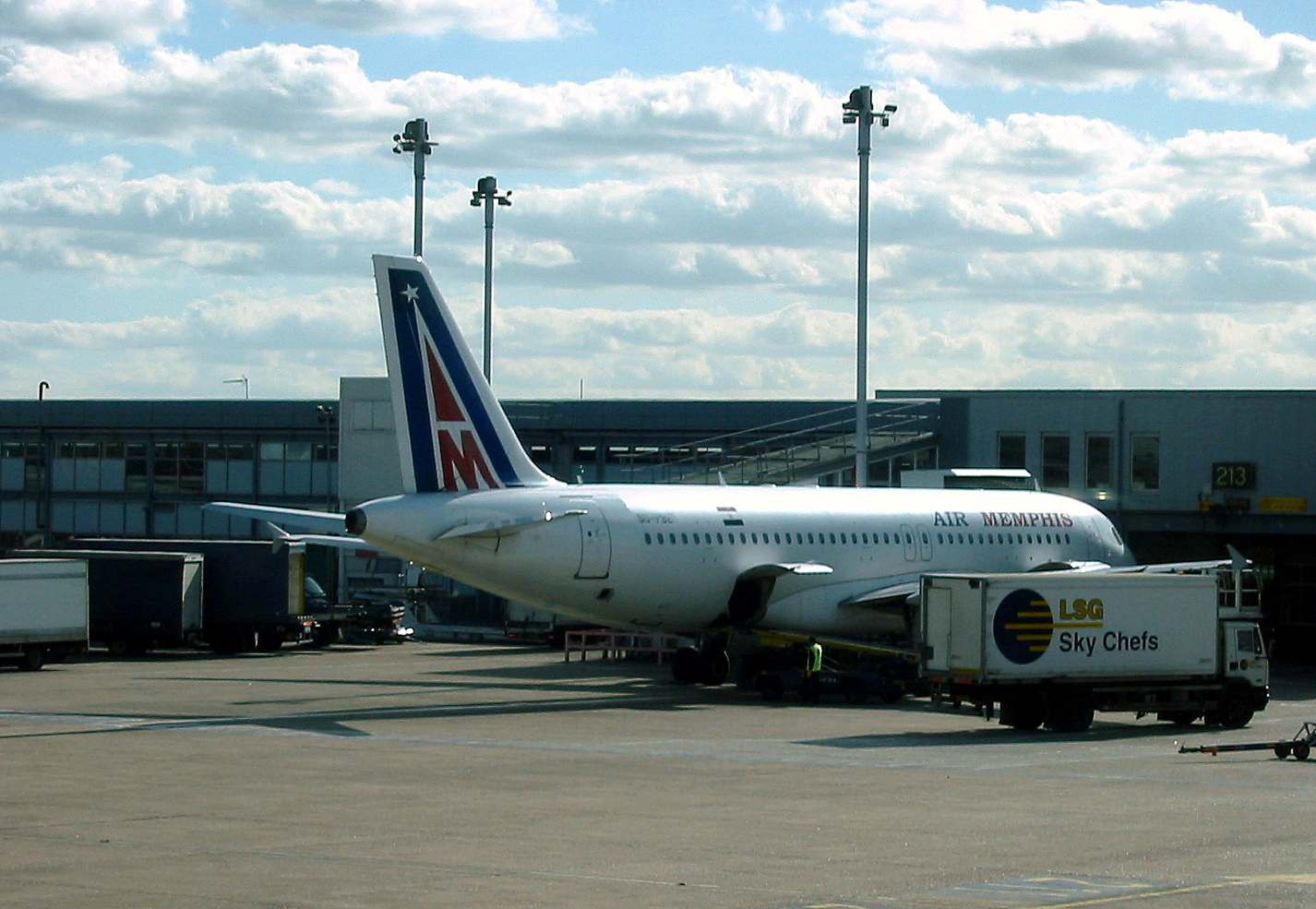 Air Memphis Airbus A320-200 in London Heathrow airport. Photo by Asteriontalk